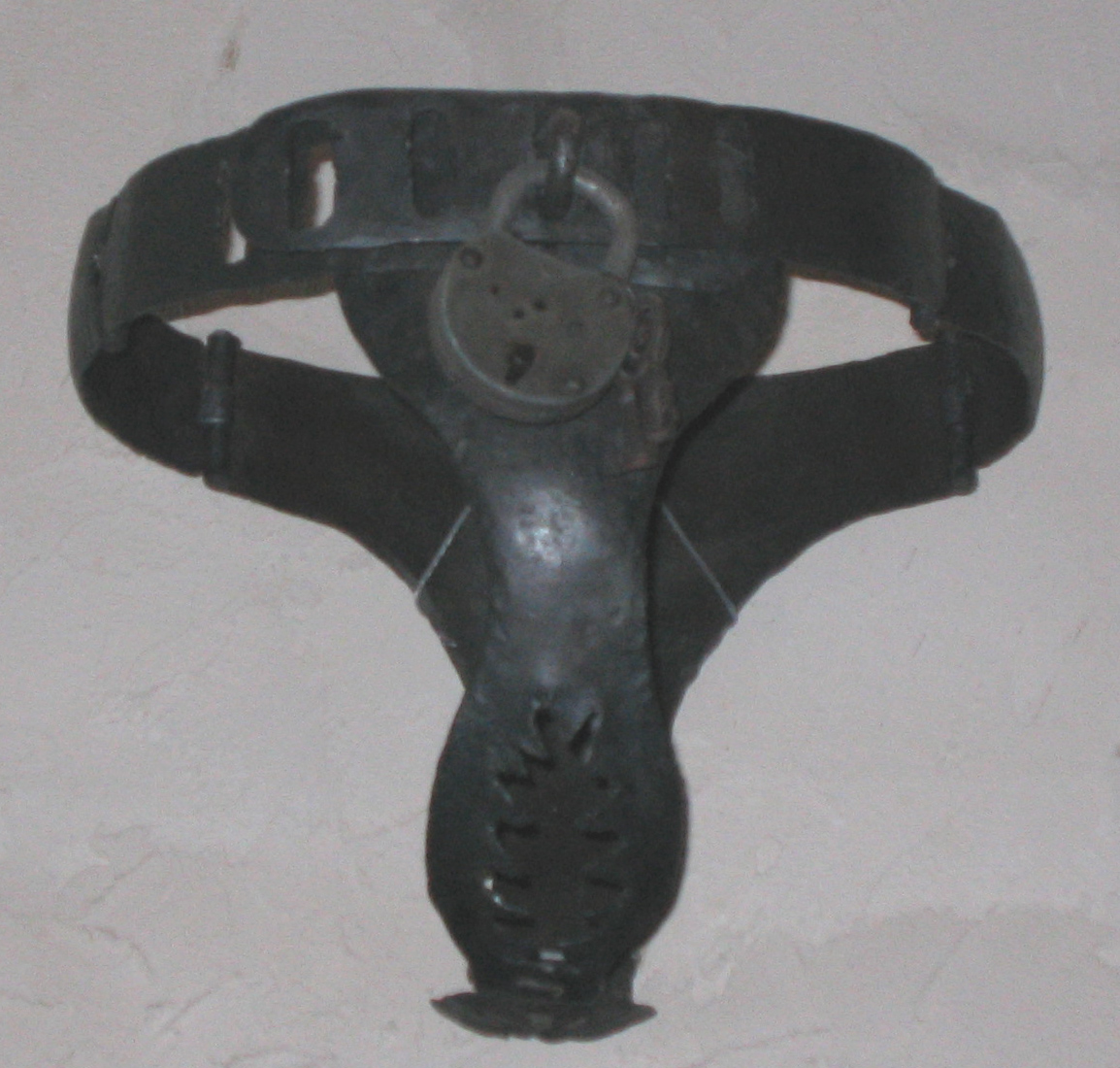 Chastity belt at the former torture museum in Freiburg im Breisgau (closed since autumn 2006). (Note that no "old" chastity belt specimens in European museums have been proven to date from before the late 16th century or 17th century, while some are outright 19th century forgeries.)